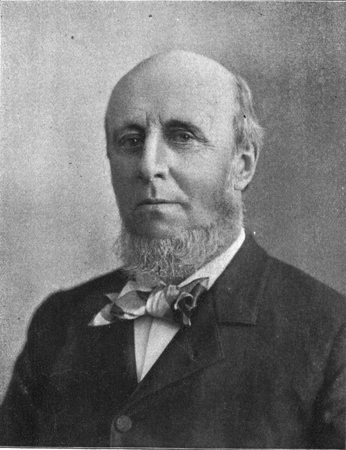 Photograph of James Burrill Angell